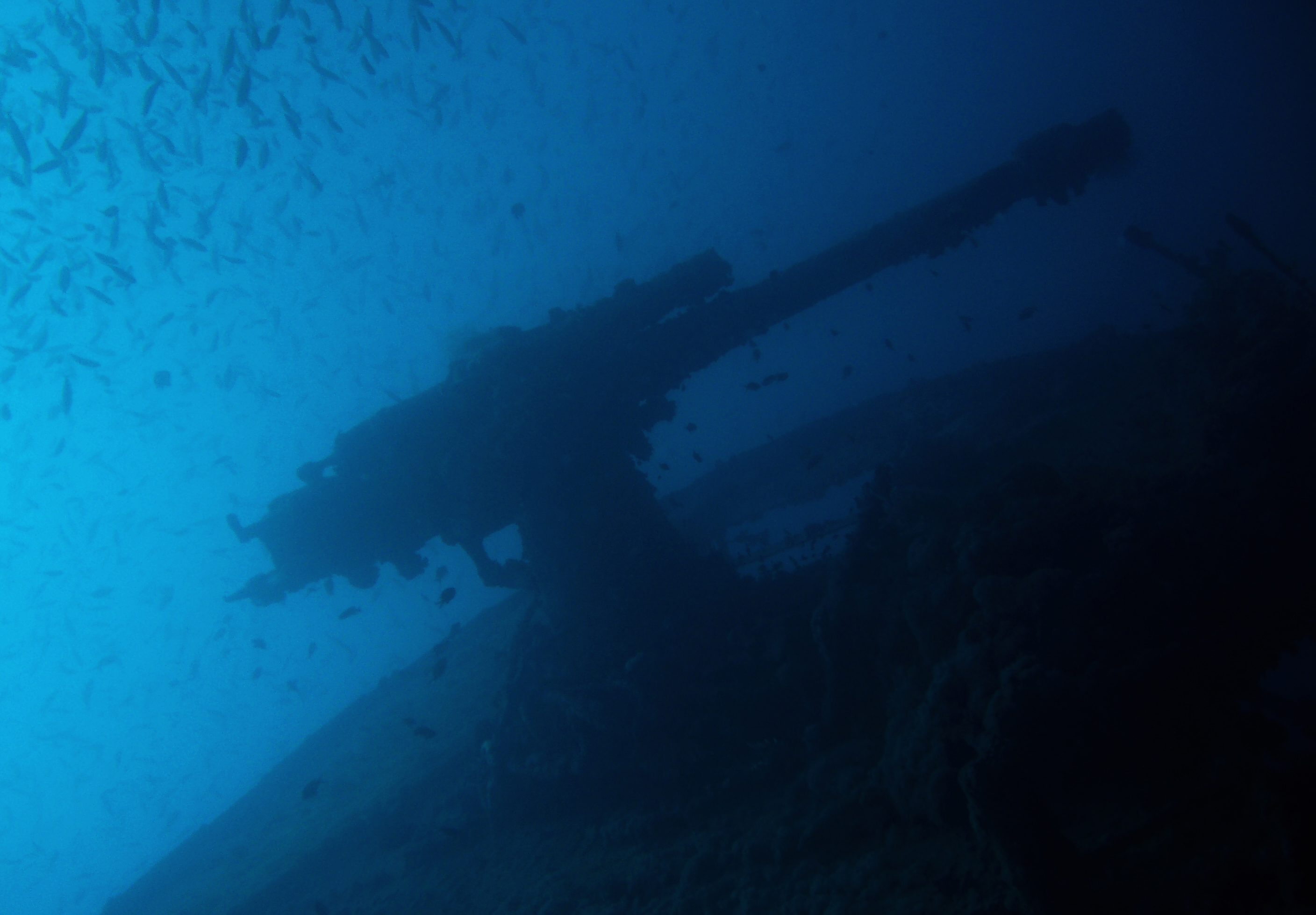 This is the stern gun of the transport ship, SS Thistlegorm. It was sunk in the Second World War by a German Bomber near Ras Muhammad in the Red Sea.